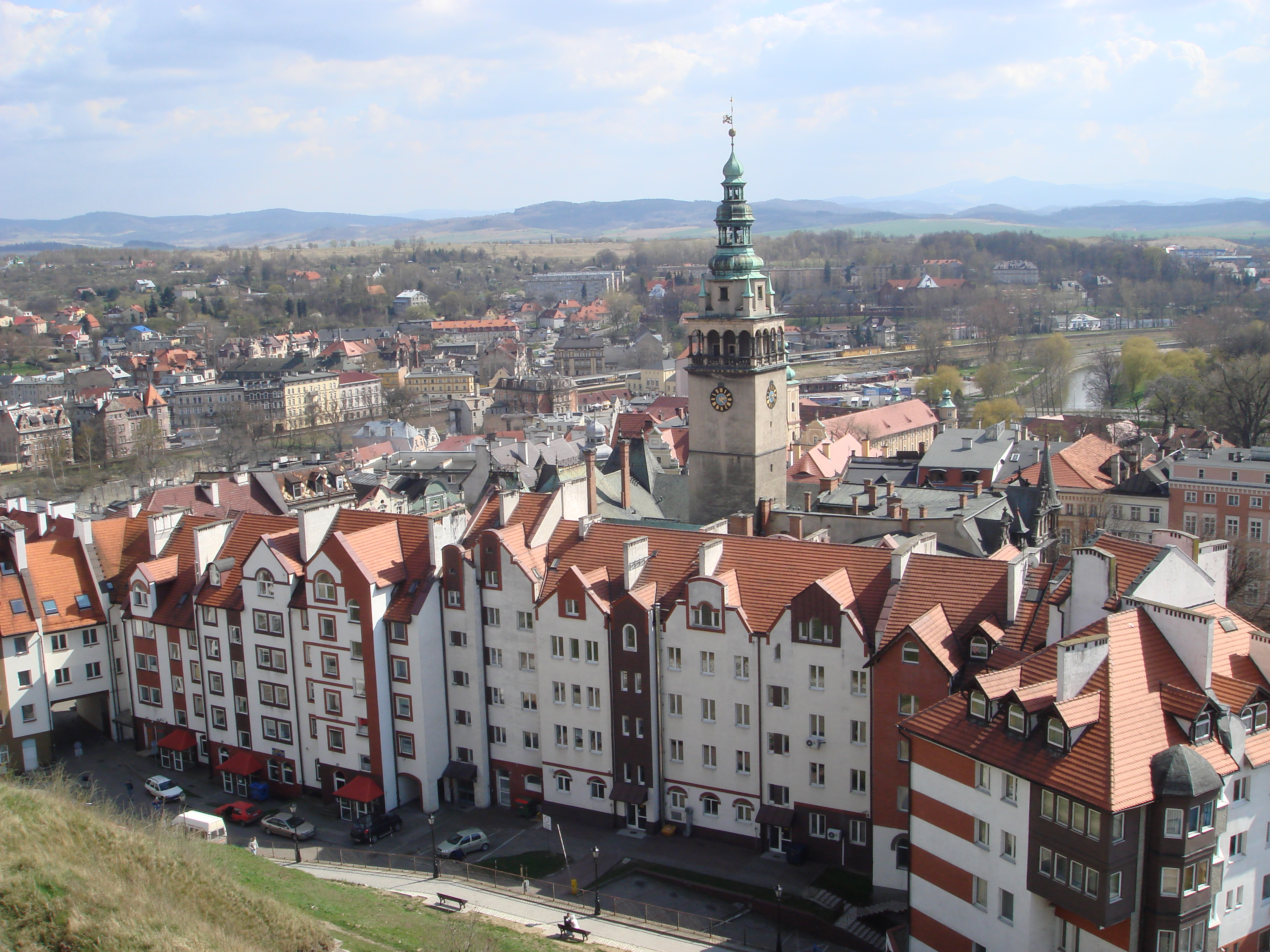 View of Kłodzko from the fortress over the city (Lower Silesian Voivodeship, Poland).